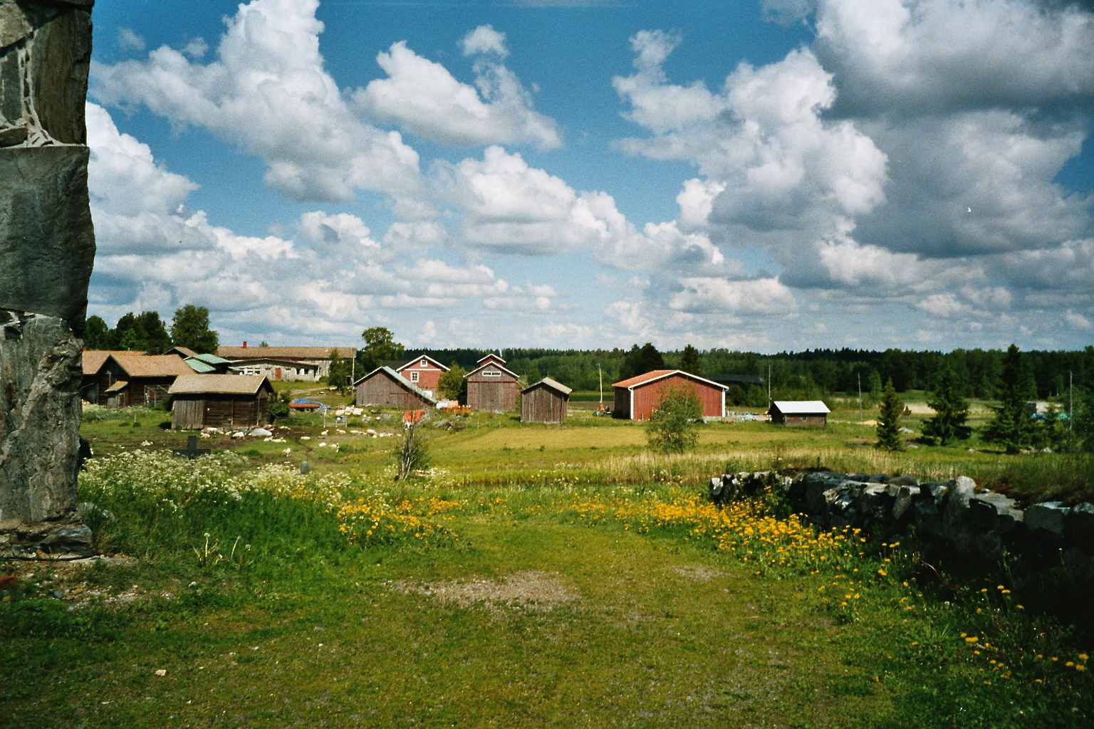 Scenery from St. Olaf's Church in Tyrvää